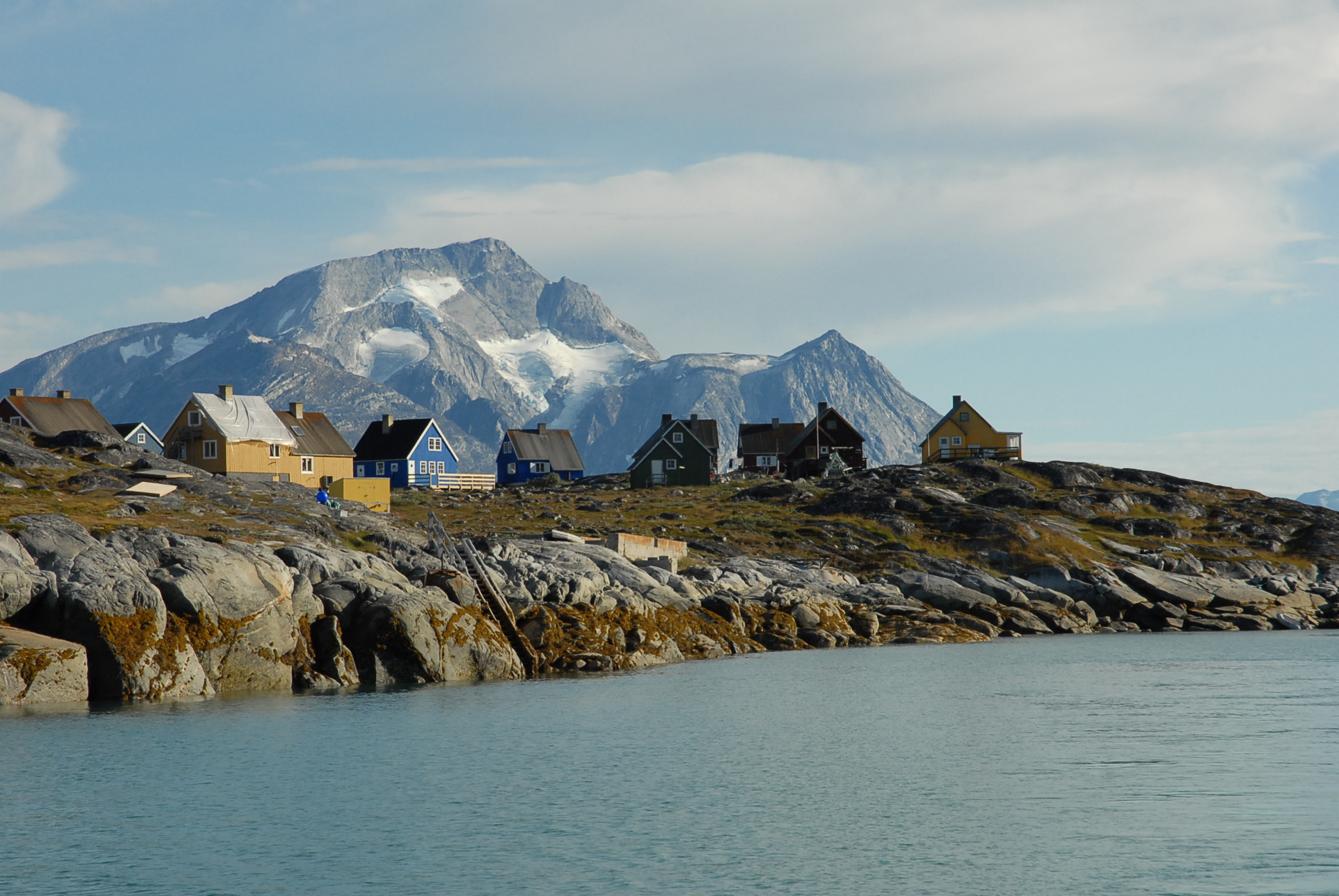 View of Qoornoq, southwestern Greenland